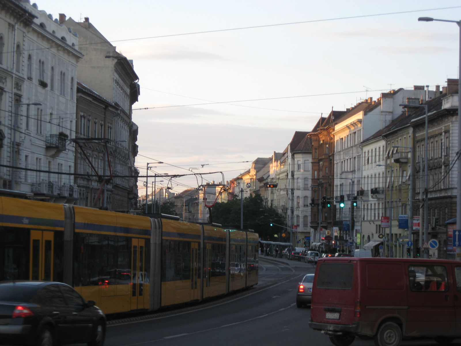 w